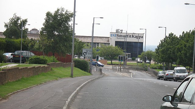 Smurfit Kappa Packaging factory. Smurfit Kappa make corrugated paper packaging. View from in traffic on Aitkinhead Road.